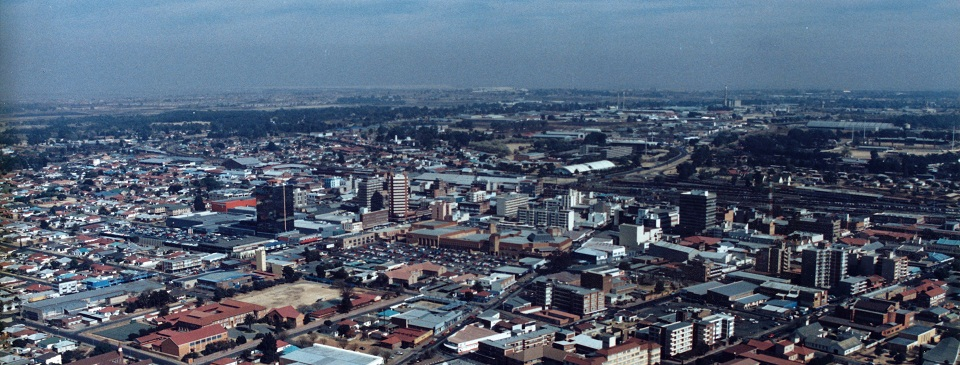 Panoramic view of the Springs CBD